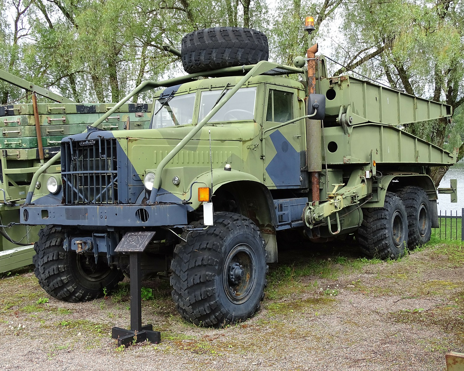 022 - TMM-3